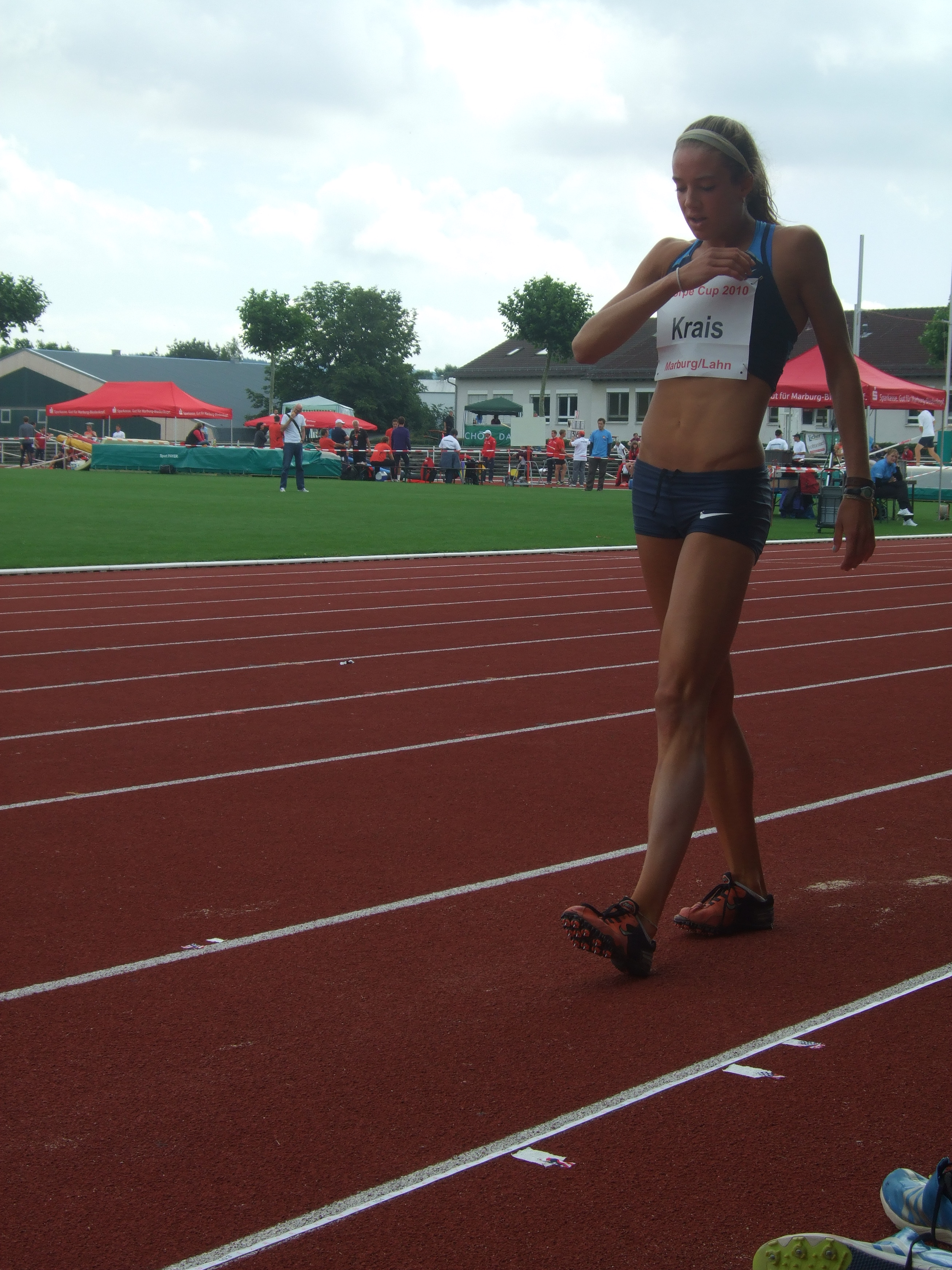 Heptathlete Ryann Krais competing in the long jump at the 2010 Thorpe Cup